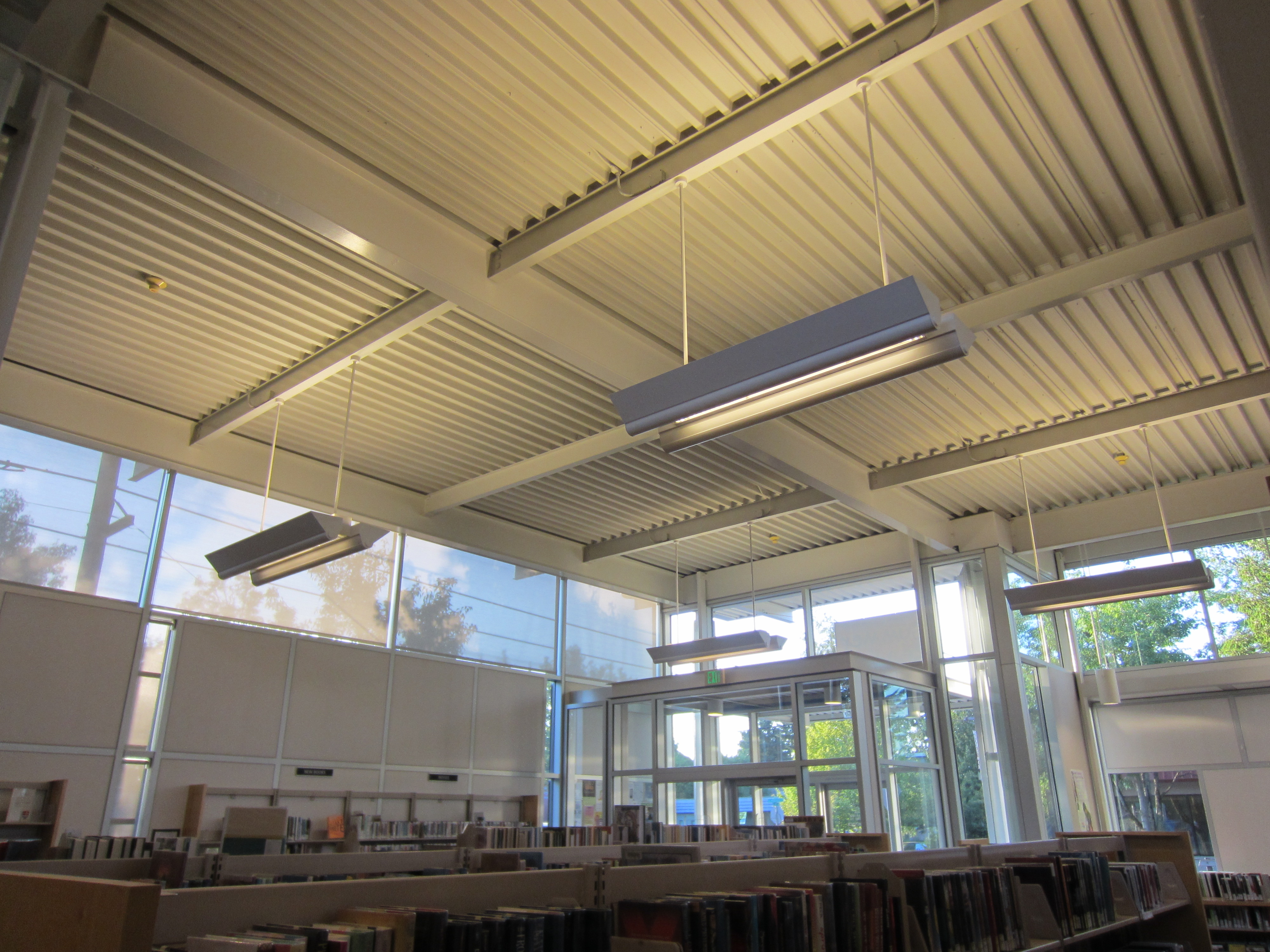 Woodstock Library, a branch of the Multnomah County Library system, located in the Woodstock neighborhood of southeast Portland, Oregon in 2012